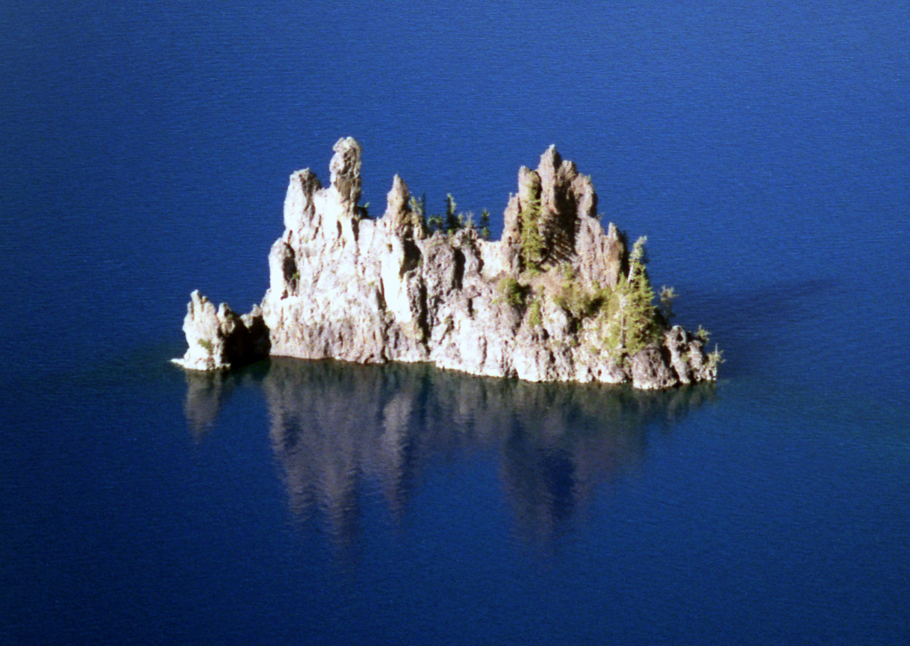 Crater Lake, Oregon - Phantom Ship Island